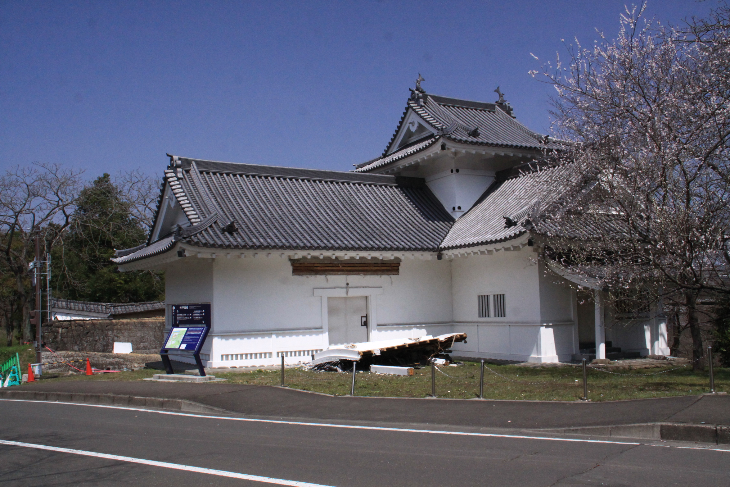 [Wakiyagura] (corner tower) at Aoba Castle (Sendai castle) major gate that breaks eaves and dropped by 2011 Tōhoku earthquake. The collapsed rampart is seen in the tower left. Sendai, Miyagi.